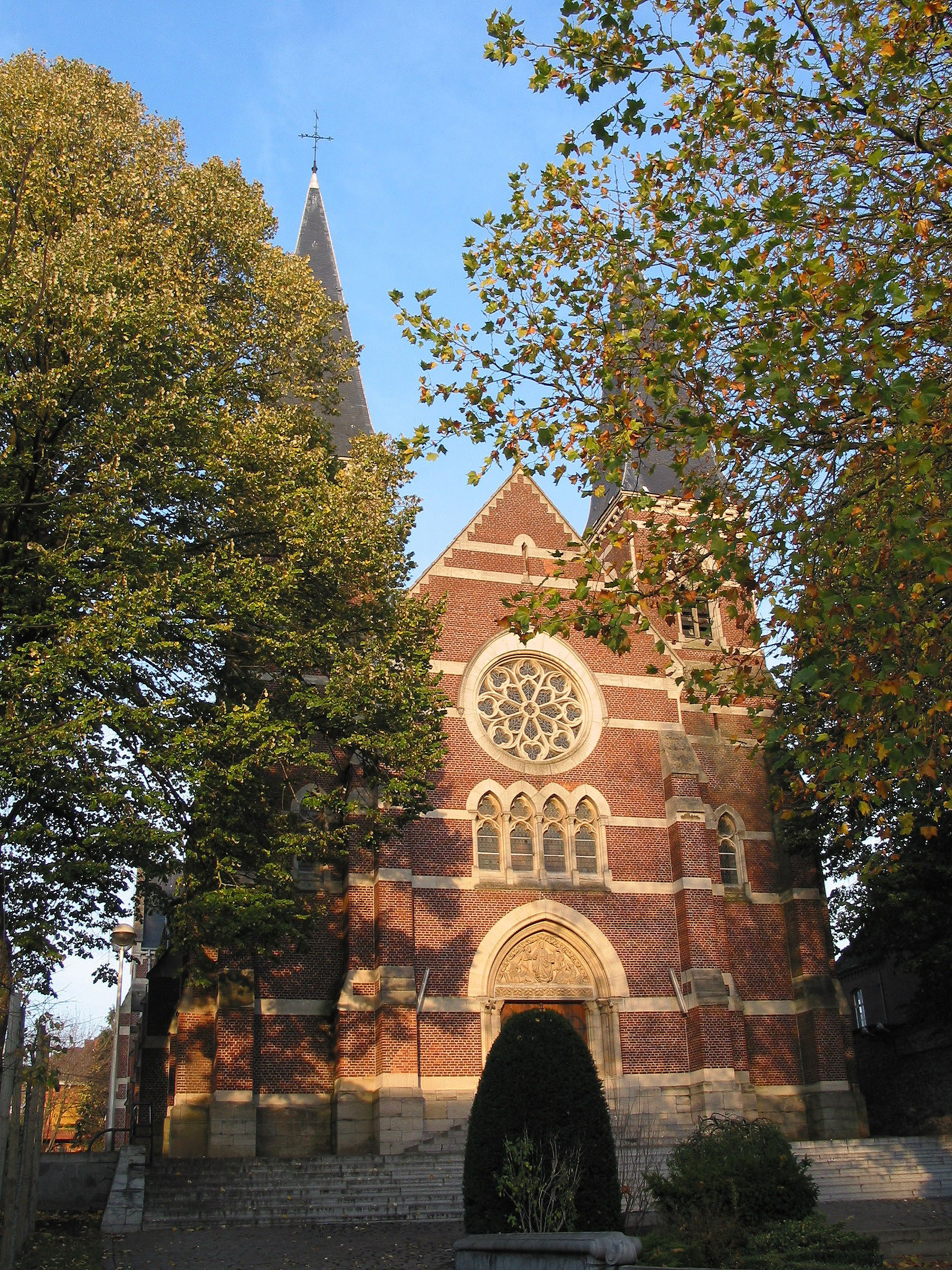 Antoing (Belgium), the St. Peter's church.